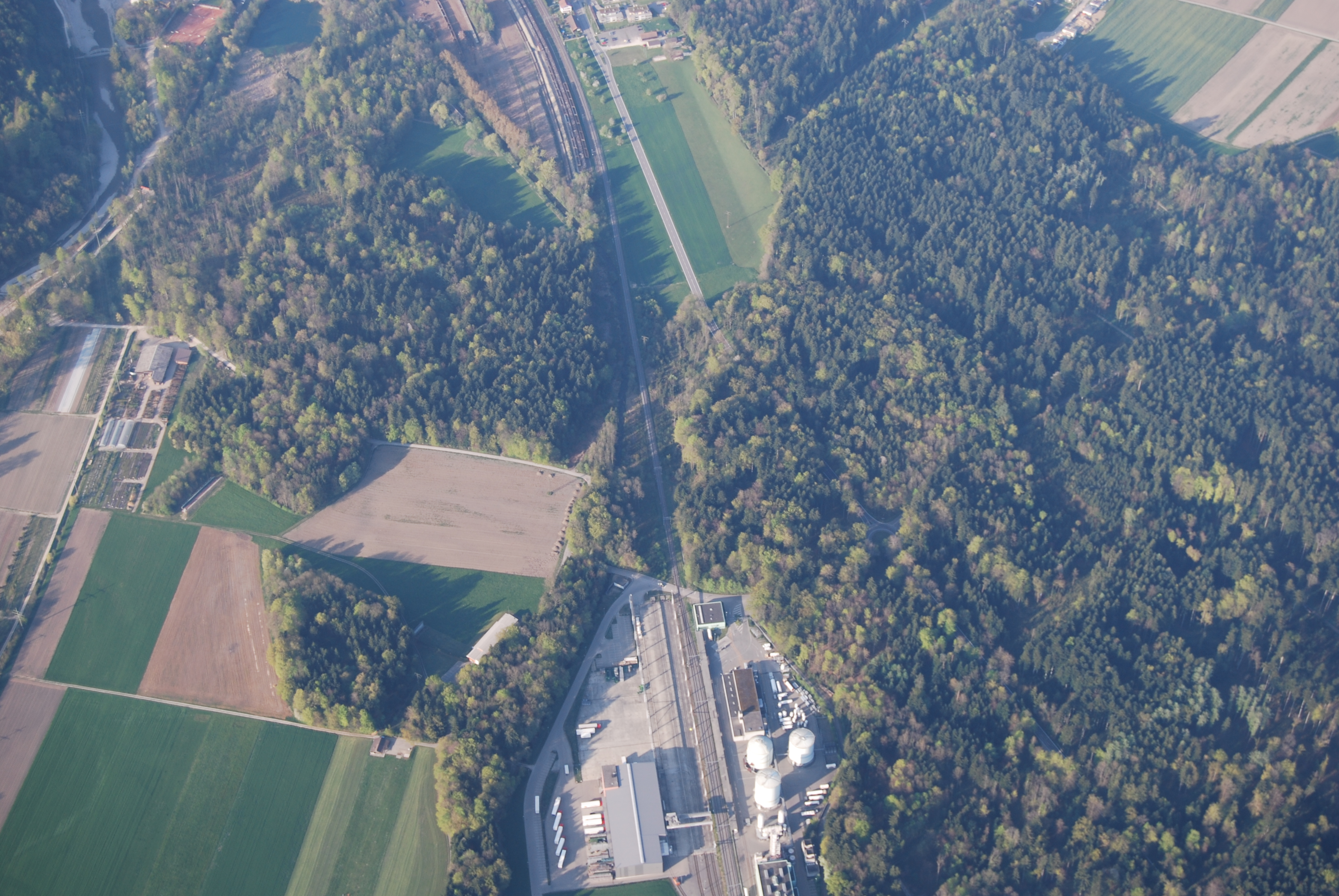 Industrial quarter Vorholzmatt at Wiler bei Utzenstorf, canton of Bern, Switzerland